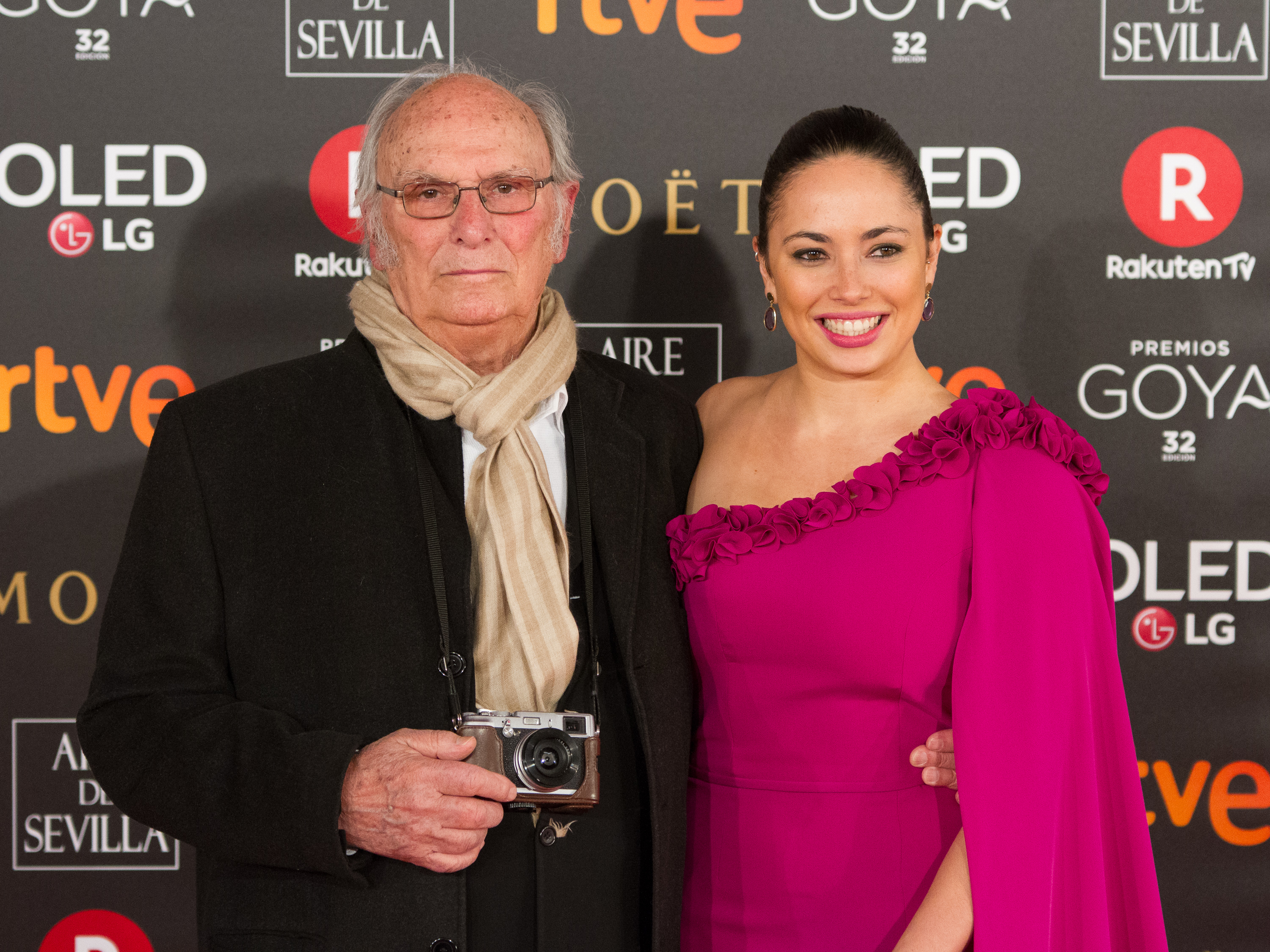 32nd Goya Awards, 2018.